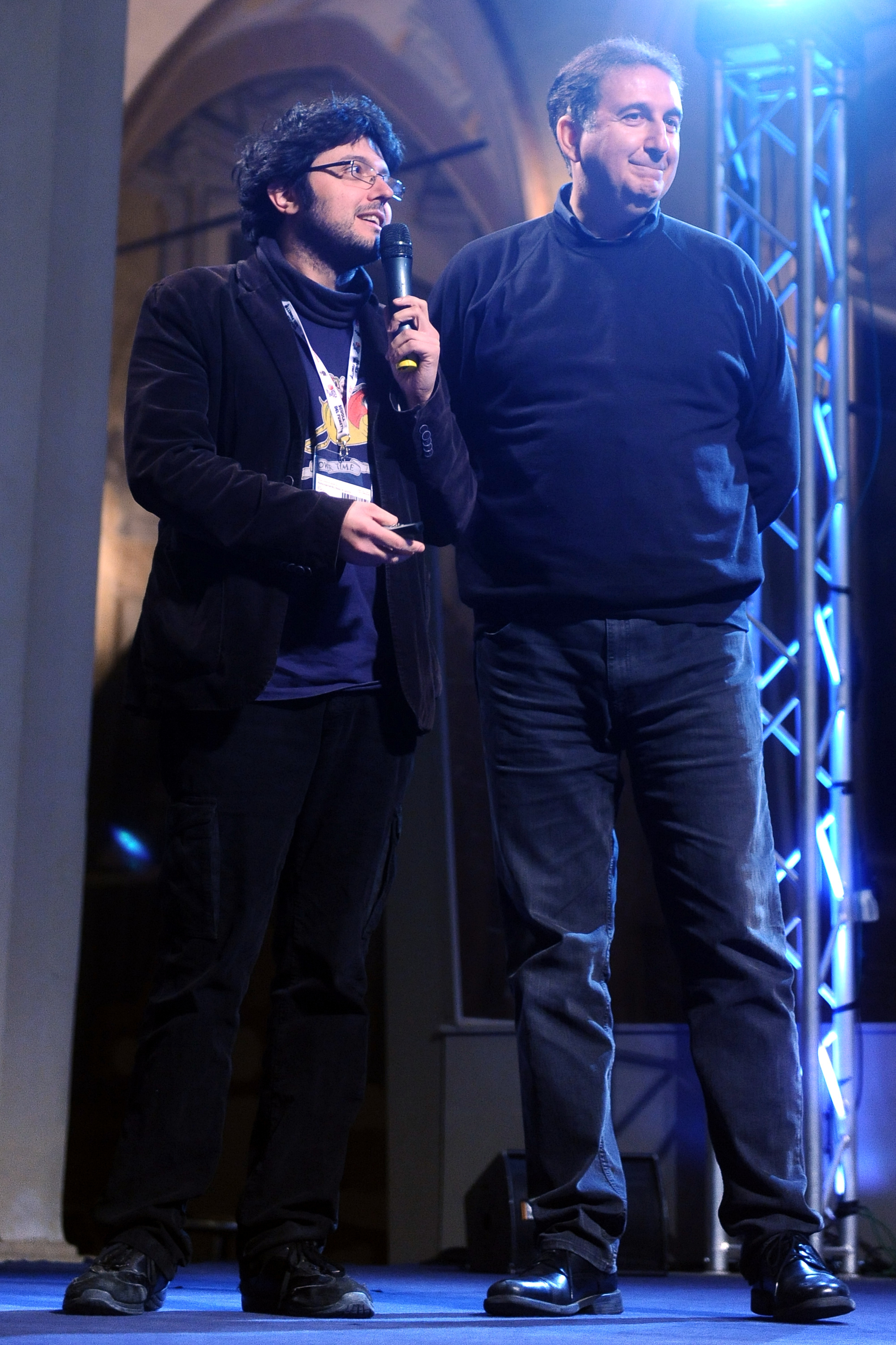 Davide La Rosa and Roberto Giacobbo at Lucca Comics & Games 2014.